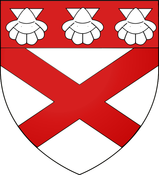 Arms of Talboys of Kyme.